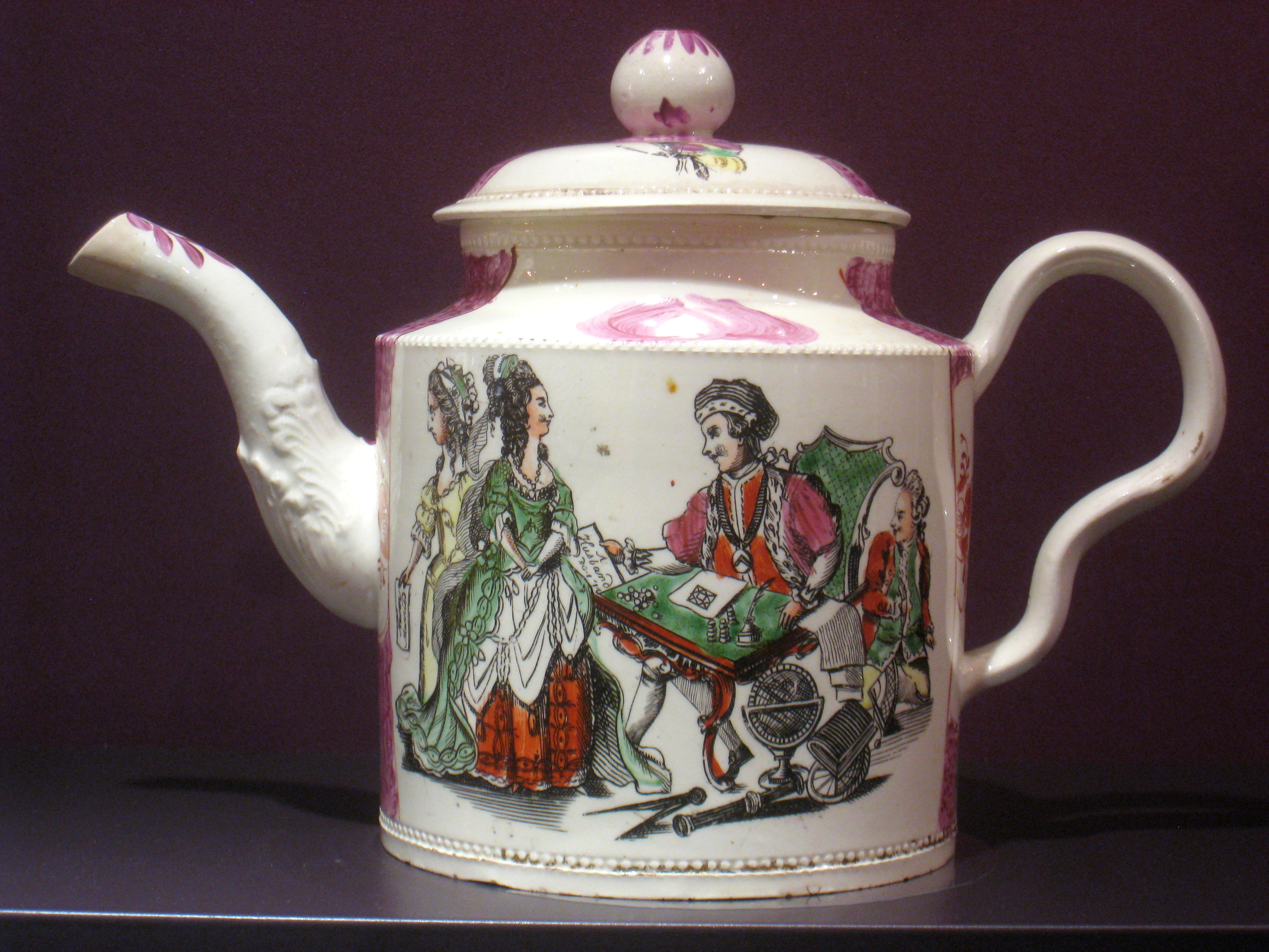 Teapot entitled "The Fortune Teller", earthenware with transfer-printed and enamel decoration; William Greatbatch, Lane Delph, Fenton Factory, Staffordshire, 1762-1782. Pottery exhibited in the DAR Museum, National Society Daughters of the American Revolution, 1776 D Street NW, Washington, DC, USA.